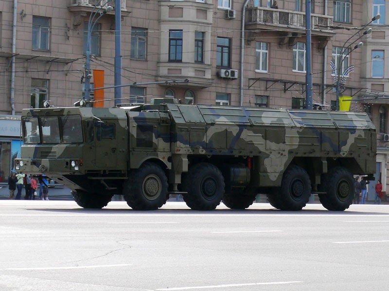 OTRK Iskander-M ballistic missile system.